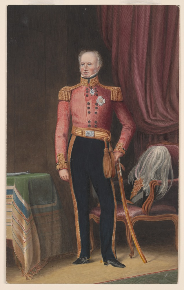 Portrait of Sir Richard Bourke by the Australian artist Arthur Levett Jackson (1834-1888). Portrait dated 1874.